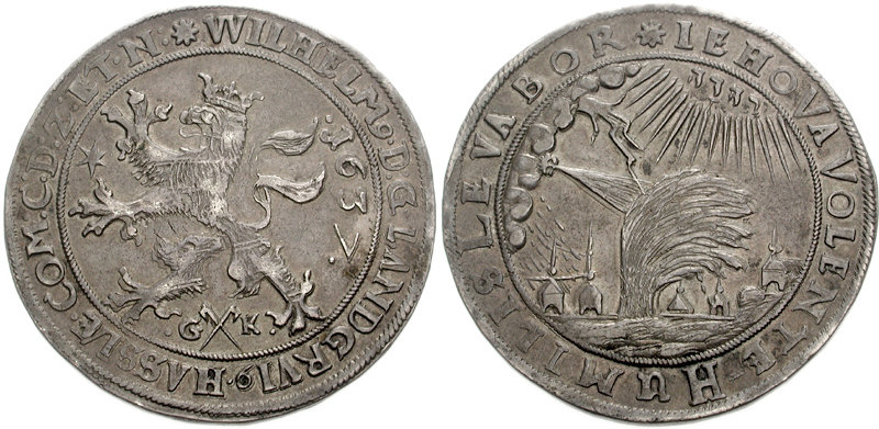 GERMANY, Hessen-Kassel. Wilhelm VI. 1627-1663. AR Taler (42mm, 28.95 g, 9h). Georg Kruckenberger, mintmaster. Dated 1637. Crowned, rampant lion left / Willow tree being buffeted by storm and struck by lightning from the clouds, sun above inscribed “Jehovah” in Hebrew, five buildings in background. Schütz 1013; Davenport 6772A. Near EF, toned.